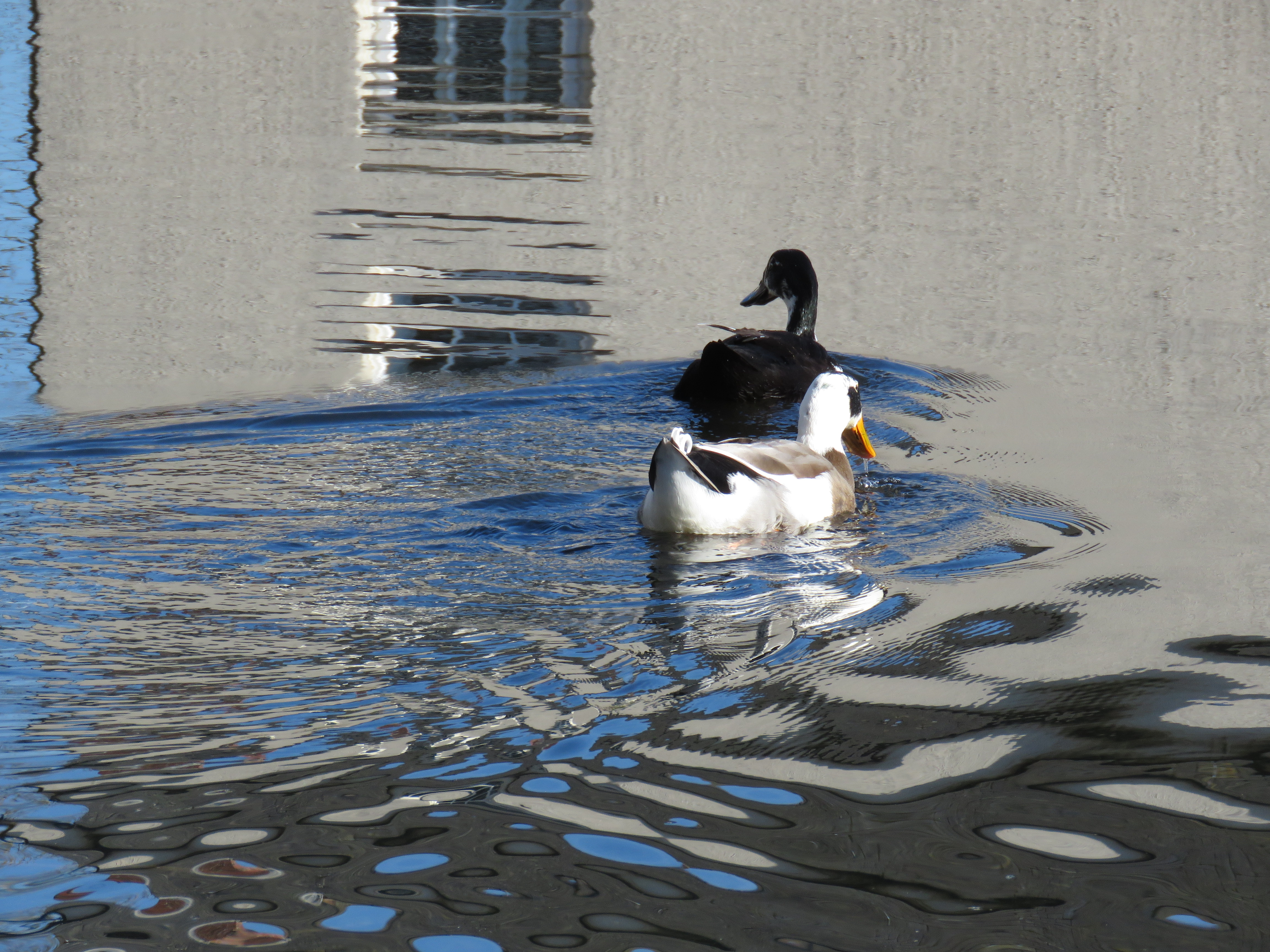 geese on Whittington lake, Shropshire